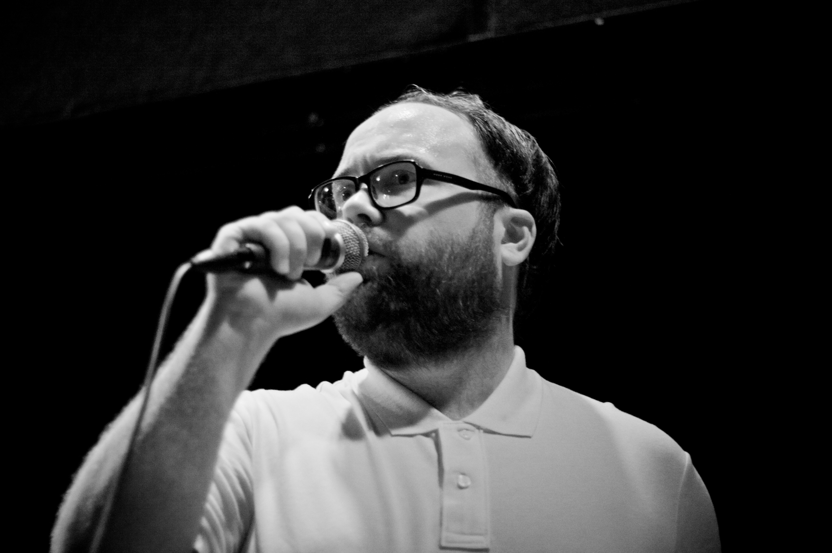 Icelandic artist Borko, performing at HG in Linköping, Sweden